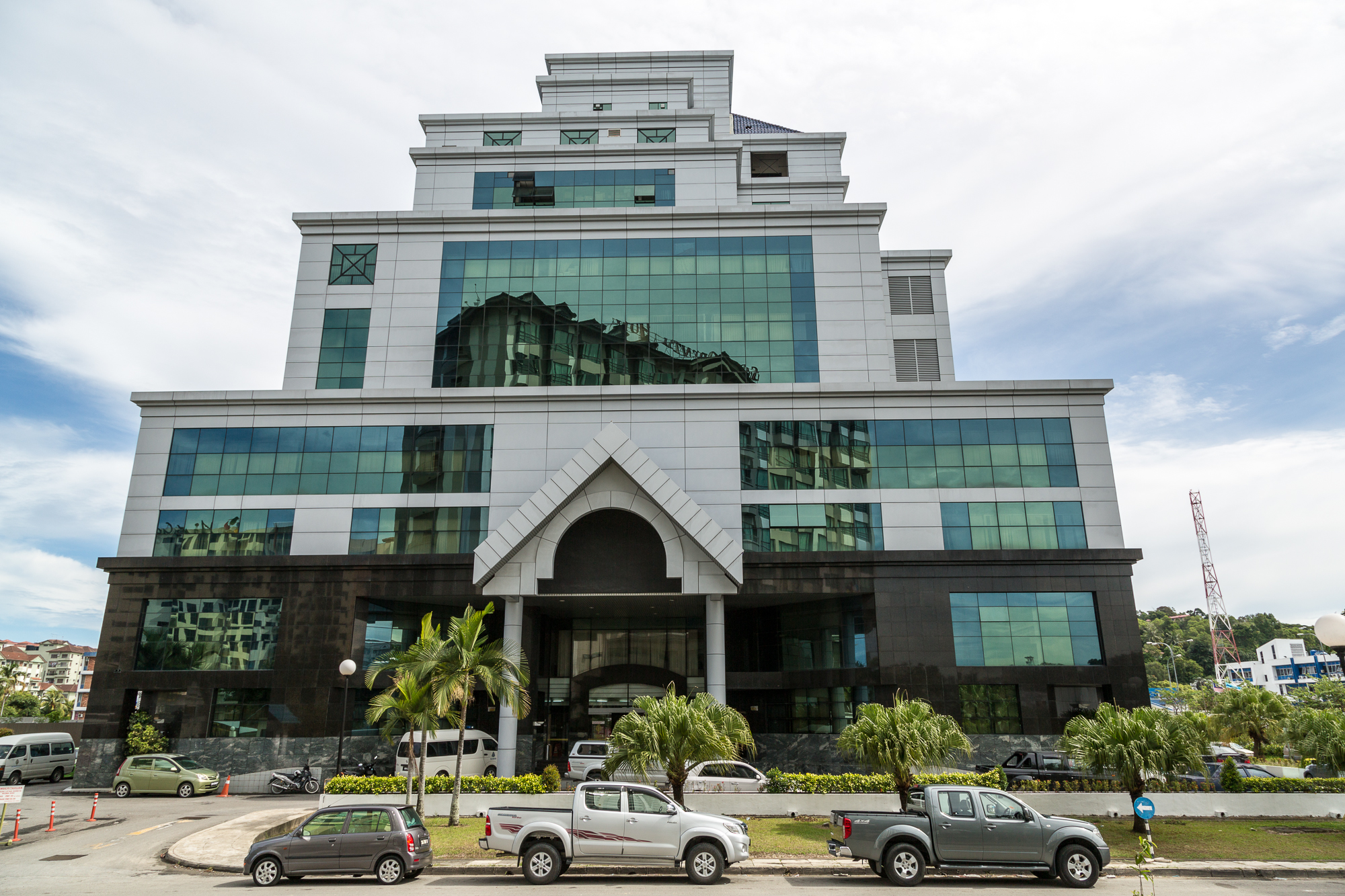 Kota Kinabalu (Sabah): UMNO Building (in the building also Islamic Bank)